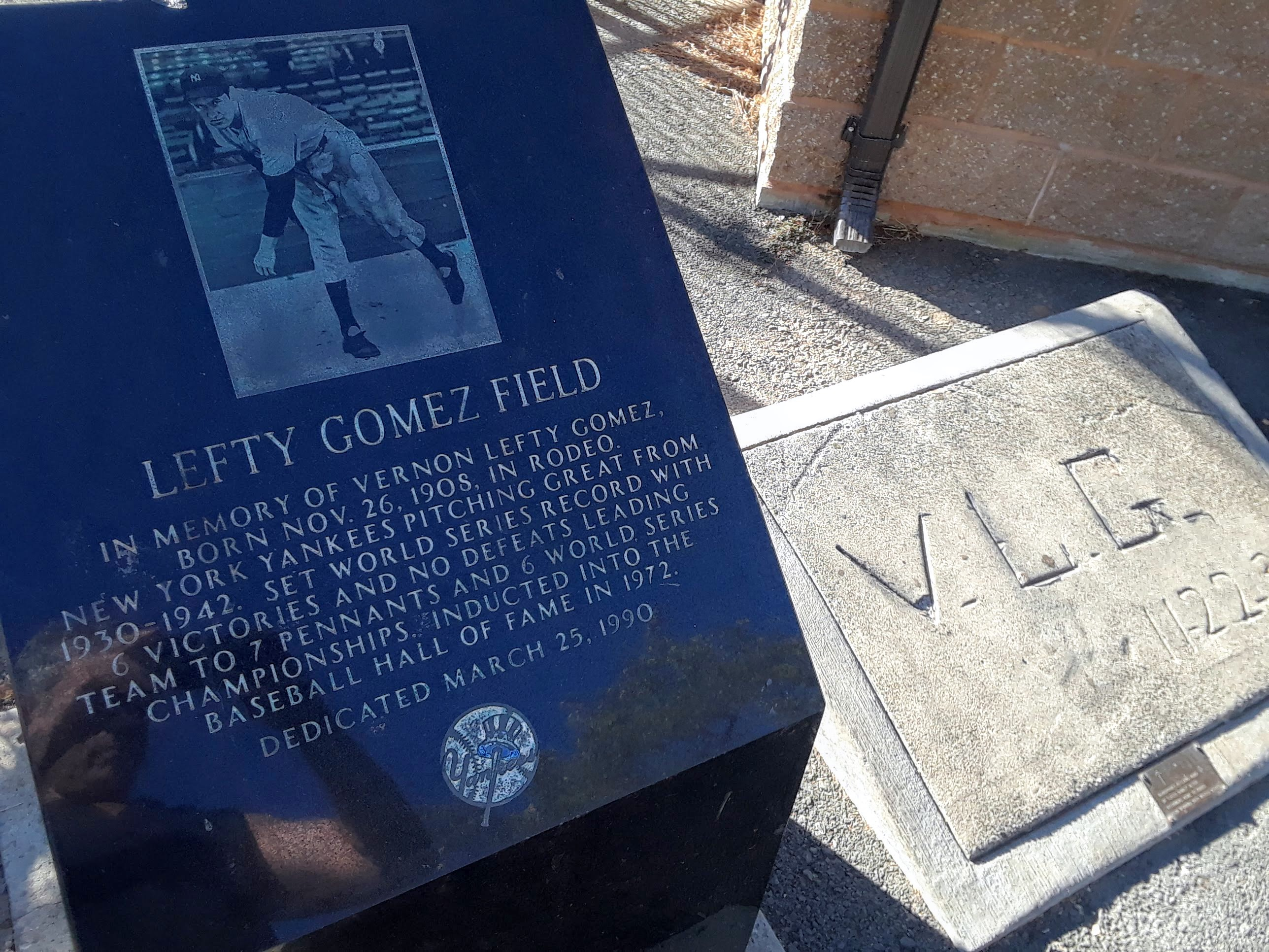 Side-by-side markers at Lefty Gomez Field in Rodeo, CA. Memorial Plaque on the left, dedicated in 1990, contains information about Lefty Gomez' career. Cement block on the right, inscribed by Mr. Gomez during visit to Rodeo after the 1932 baseball season, contains his (left) hand print along with hand-drawn initials and date.